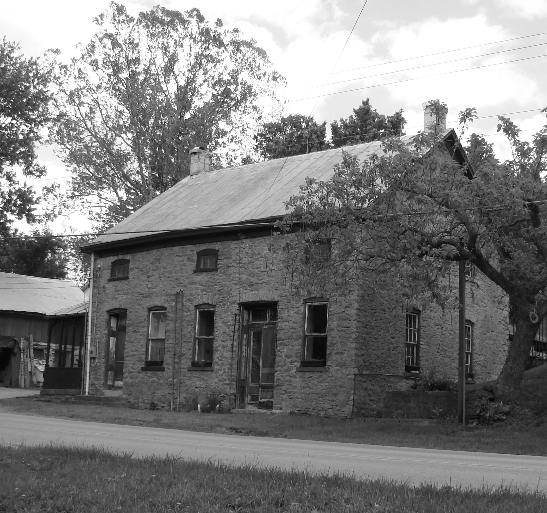 Kort Grocery is a historic property located in Camp Springs, an unincorporated area of rural Campbell County, Kentucky.